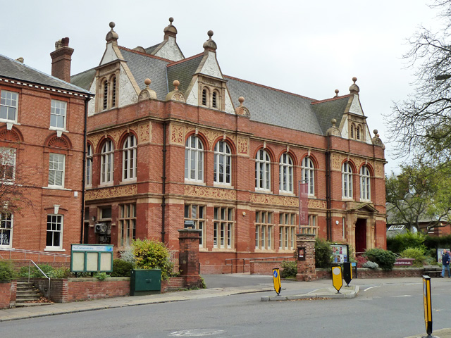 Blackheath Halls